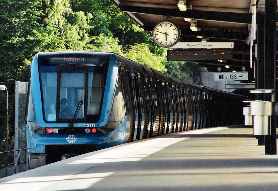 Subway train of latest series C20 in Ropsten station.